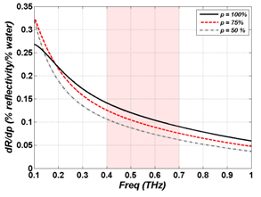 Hydration sensitivity